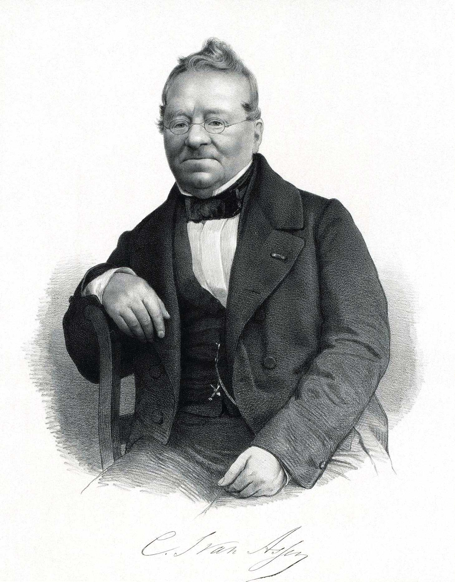 Cornelis Jacobus van Assen (1788-1859) Dutch jurist